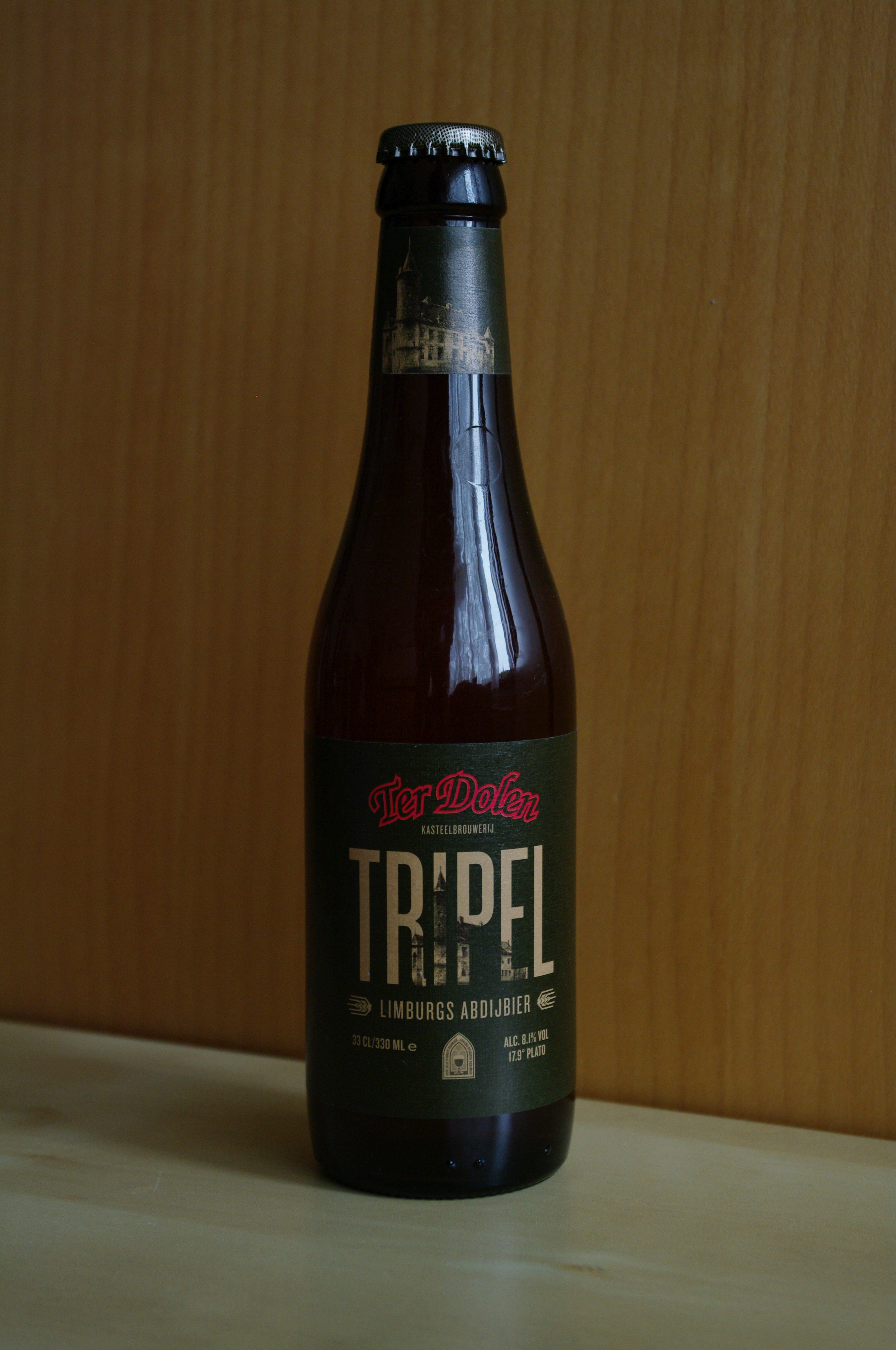 Ter Dolen tripel beer